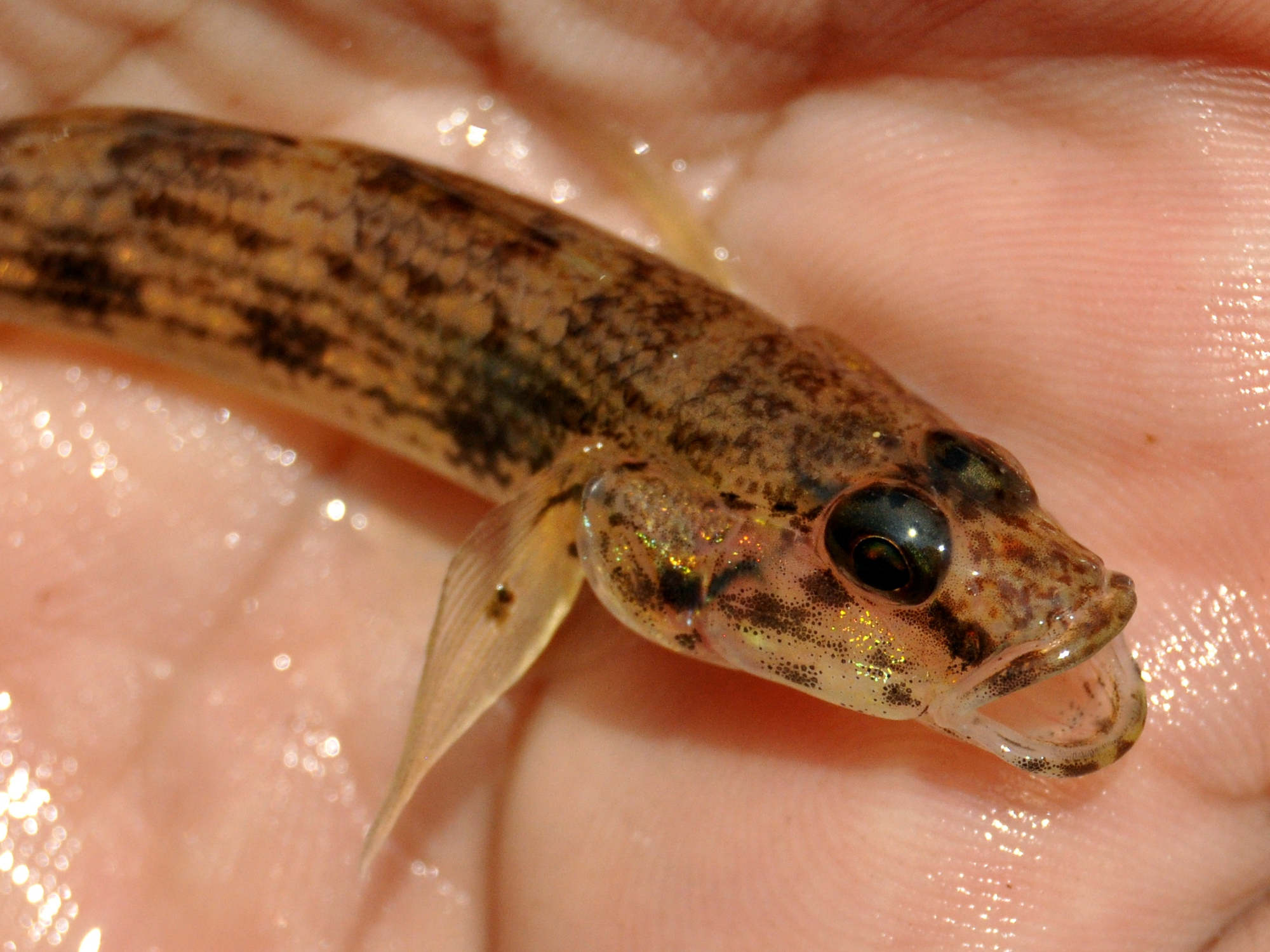 Tank goby, Glossogobius giuris, ca 52 mm SL. Head close up. From Banyumas, Central Java, Indonesia.